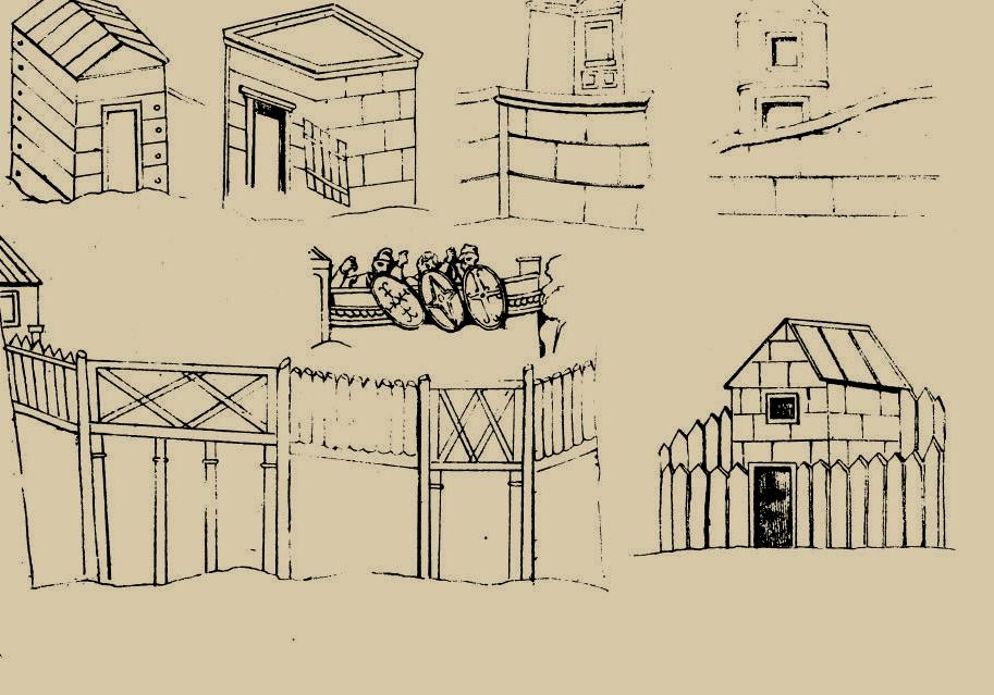 Architecture of the Dacians (pre-Roman Dacia) as it results from the Roman Emperor Trajan's Column (2nd century AD) according to Tocilescu Grigore George (26 October 1850 – 18 September 1909) who was a Romanian historian, archaeologist, epigrapher and folkorist, member of Romanian Academy. This image reproduces his representation from his work published in 1877 in Annals of the Romanian Academic Society "Ragguagli de' lavori accademici ... per l'anno 1826 (-1830)" "Societa reale borbonica, Annalele Societatii Academice Romane" at Bucuresci (Bucharest) Romania